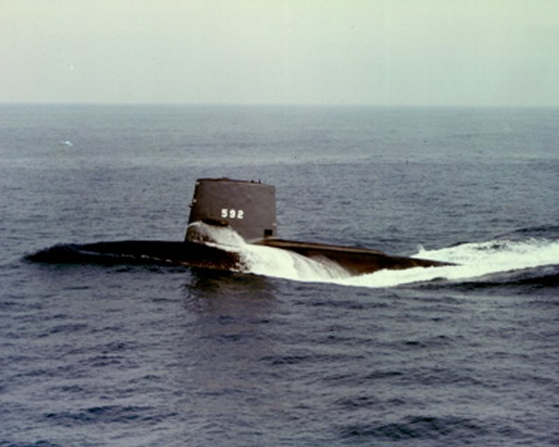 Portside view of the USS Snook (SSN-592) underway, date and place unknown.